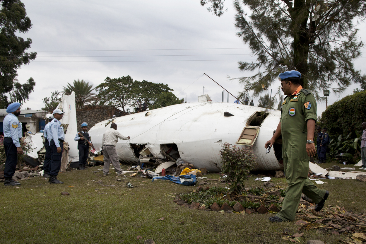 Wreckage of CAA plane that crashed in Goma residential area, lies in a private compound. Seven people died including the two pilots, three peoples survived with minor injuries, the 5th of March 2013.